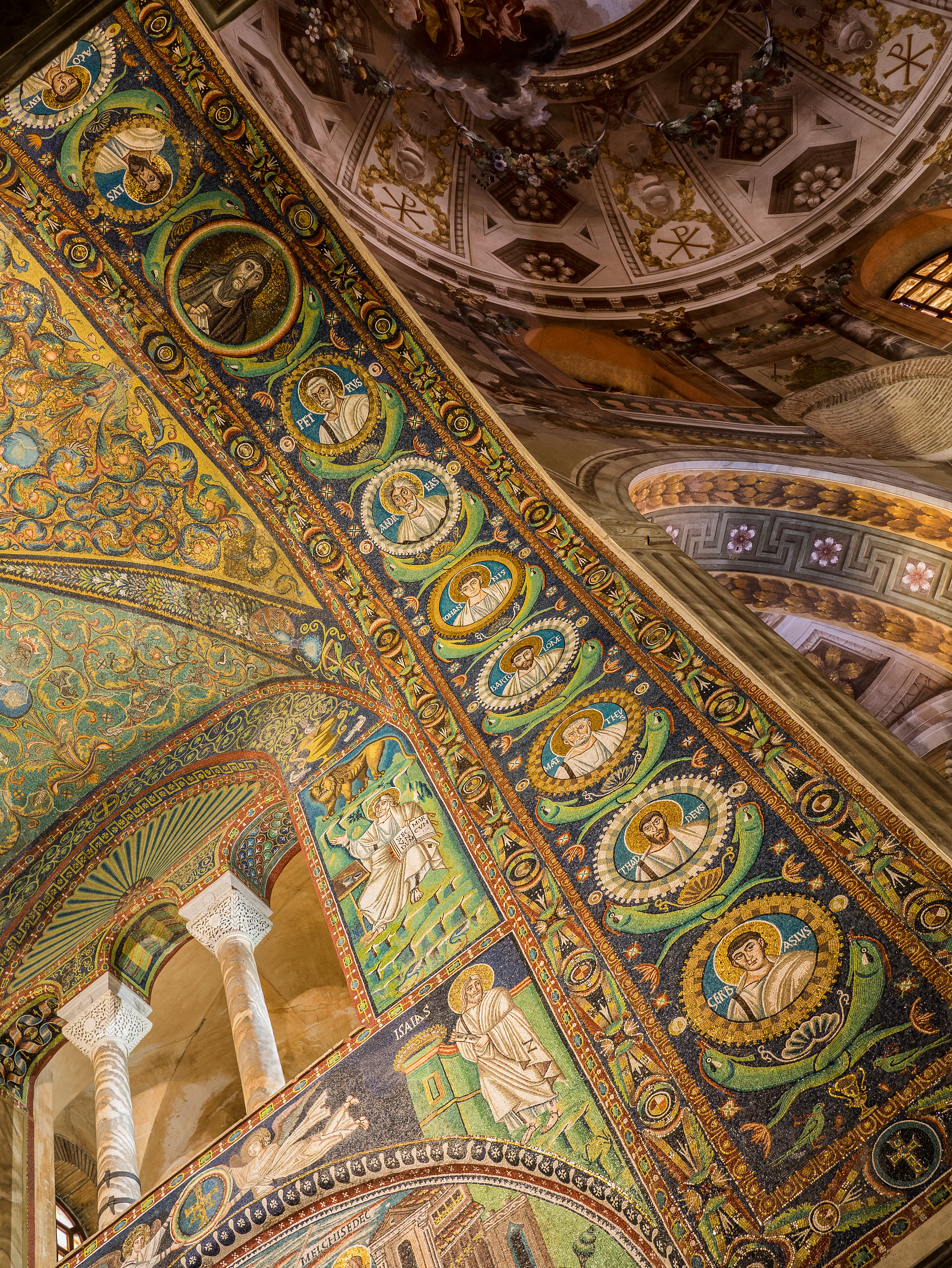 Basilica of San Vitale (built A.D. 547). Detail of the great triumphal arch with fifteen mosaic medallions, depicting Jesus Christ, the twelve Apostles and Saint Gervasius and Saint Protasius, the sons of Saint Vitale. Ravenna, Italy. UNESCO World heritage site.